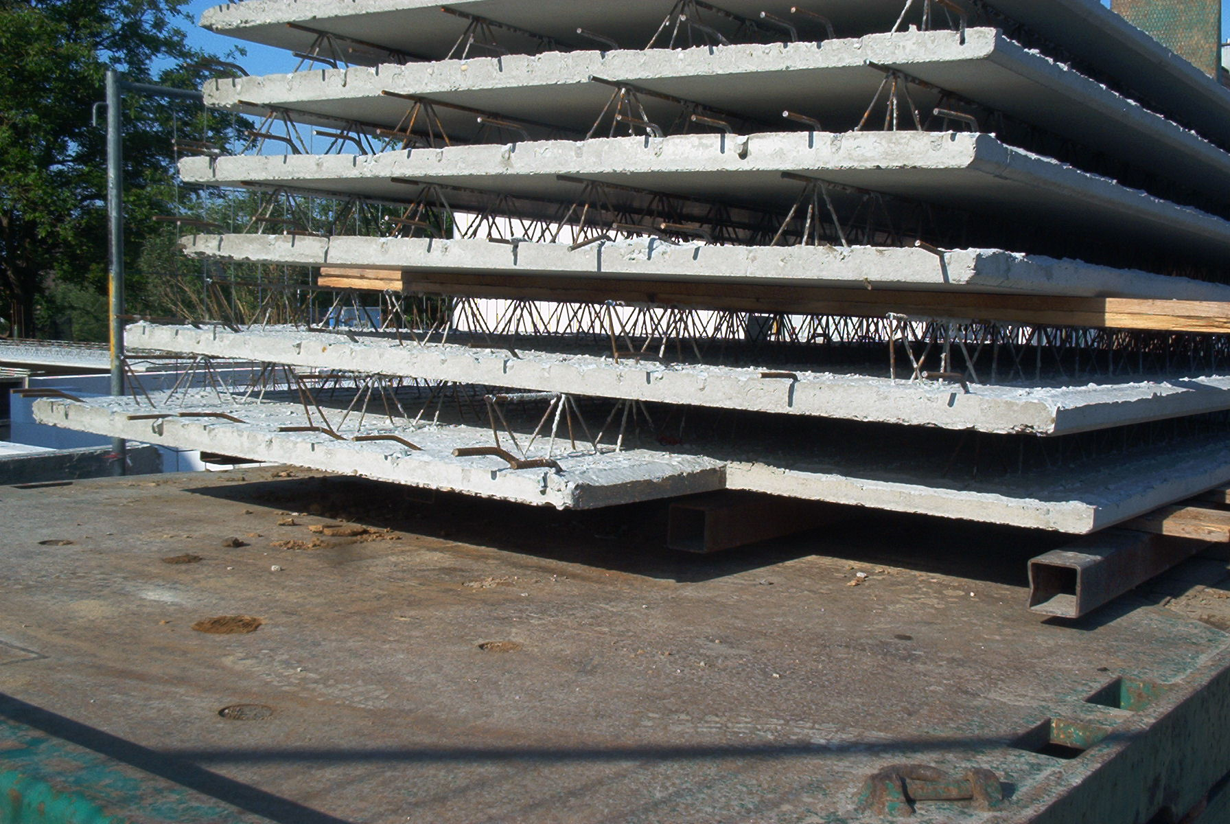 precast ceiling element